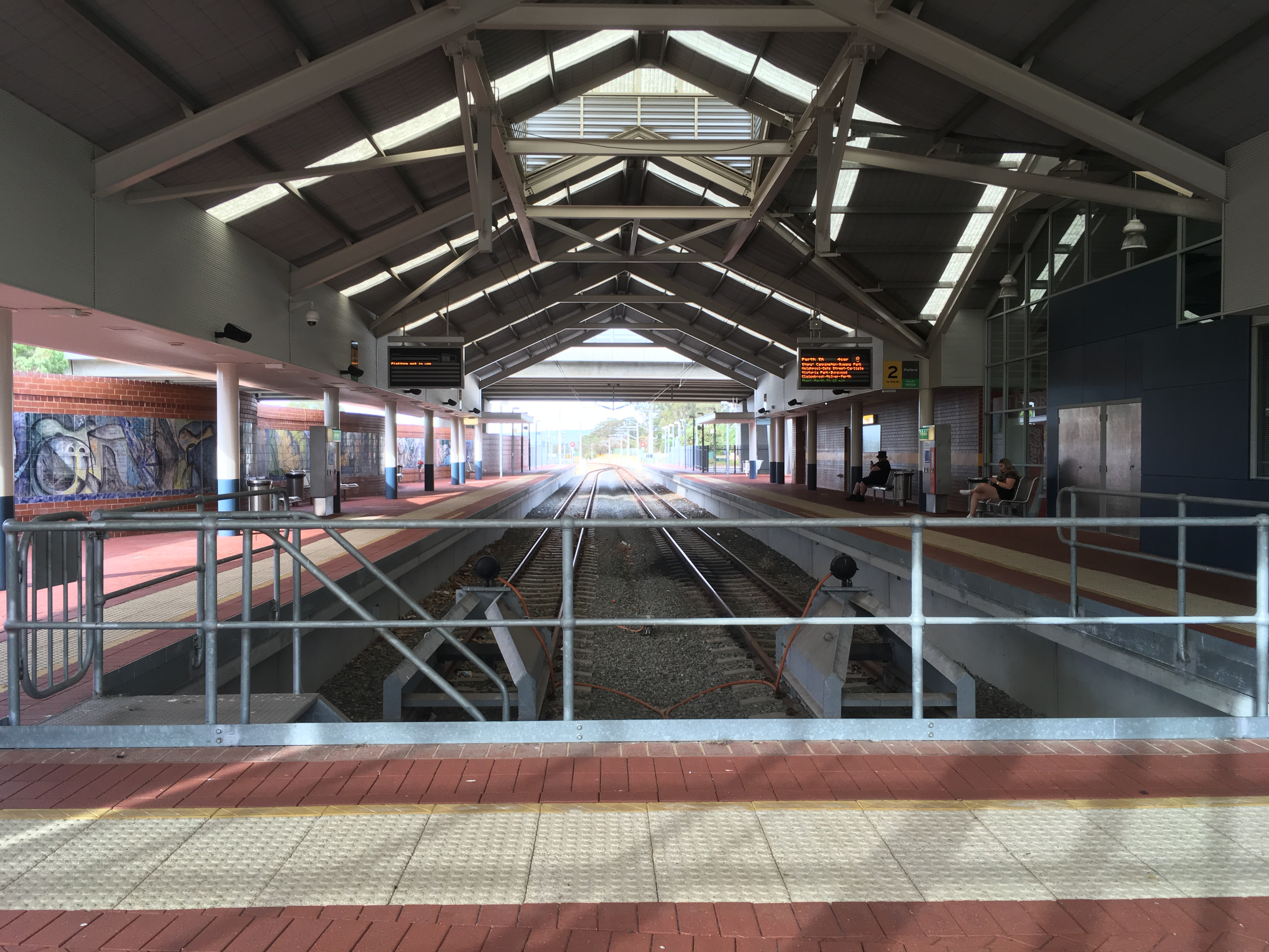 Thornlie railway station (inside)